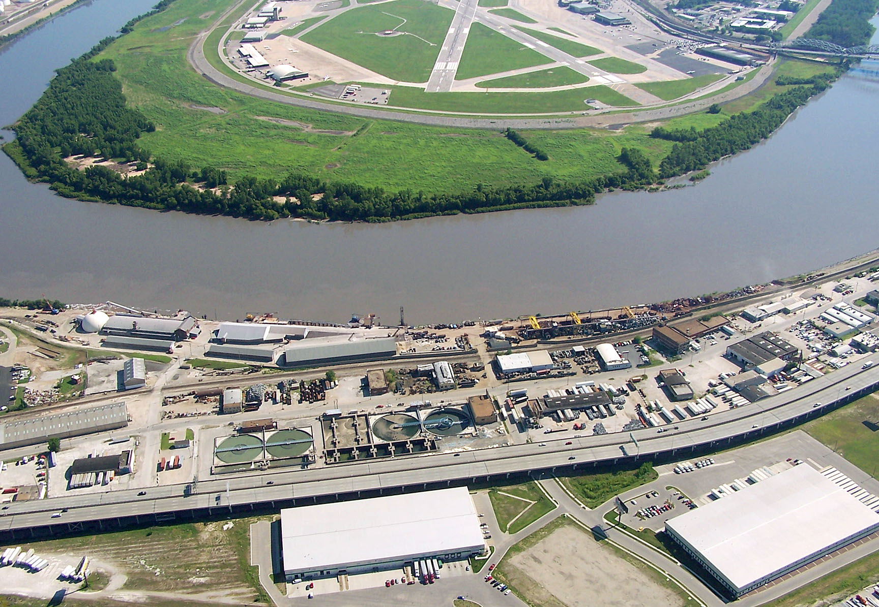 a Picture of the Port in Kansas City, MO